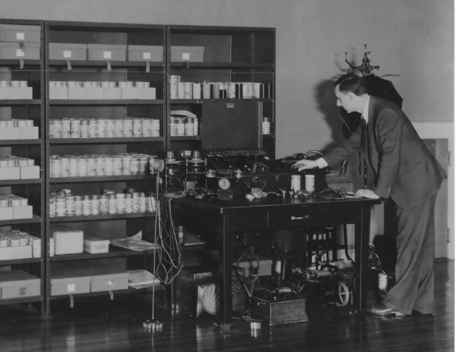 Robert W. Gordon is shown here in the southwest attic of the Library of Congress building, ca. 1930. From left to right: storage of manuscripts and recorded wax cylinders, early microphone on floor stand, magnetic wire recorder on table at left rear, rotary converter ("telephone" with dial) to change the Library's DC current to AC for recording, dictaphone cylinder recording machine (Gordon operating) and, on the floor, a variety of cylinder machines and other paraphernalia.